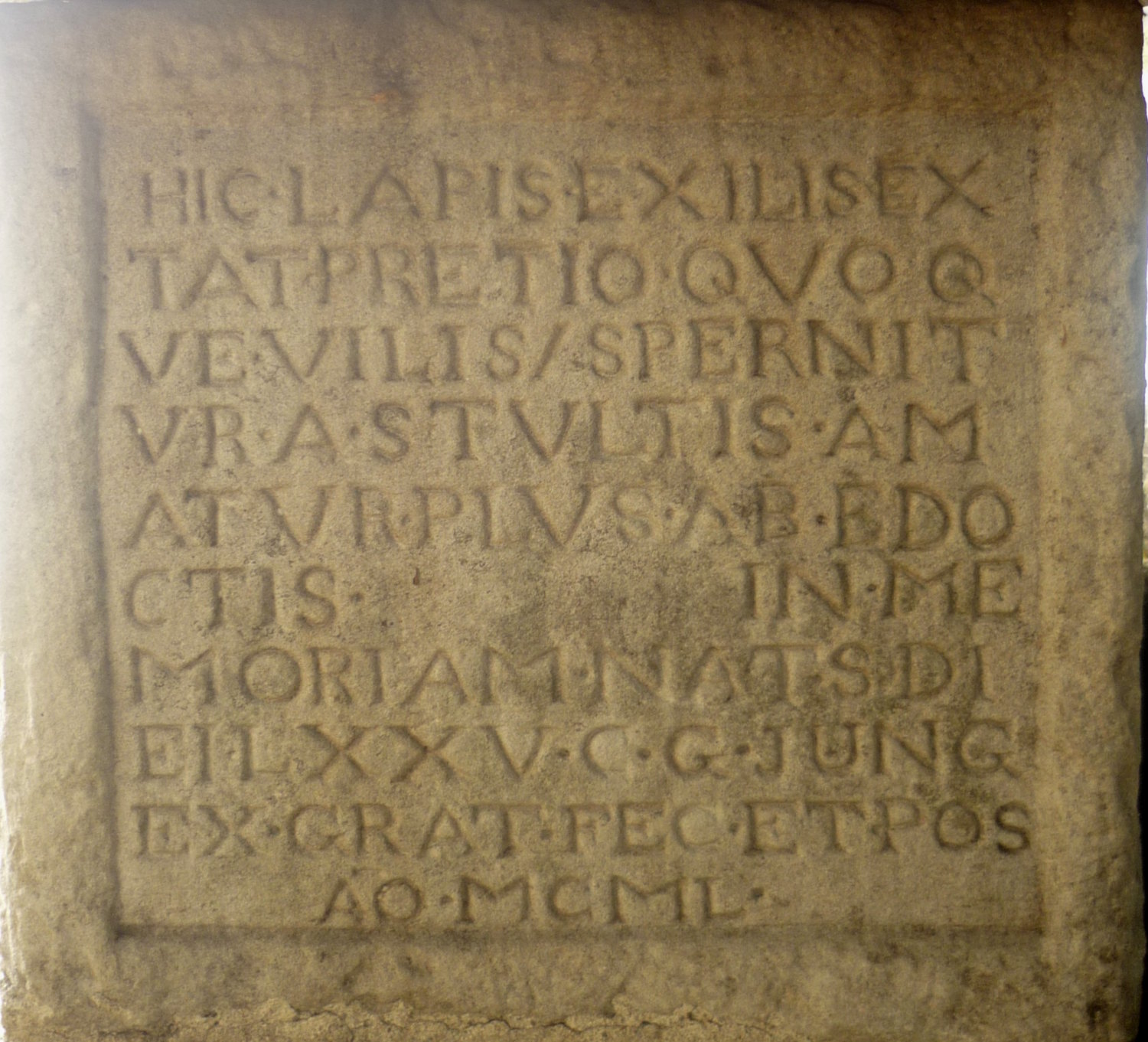 photograph of Latin inscription at the Bollingen "Tower" of C.G. Jung; the inscription itself dates to 1950.